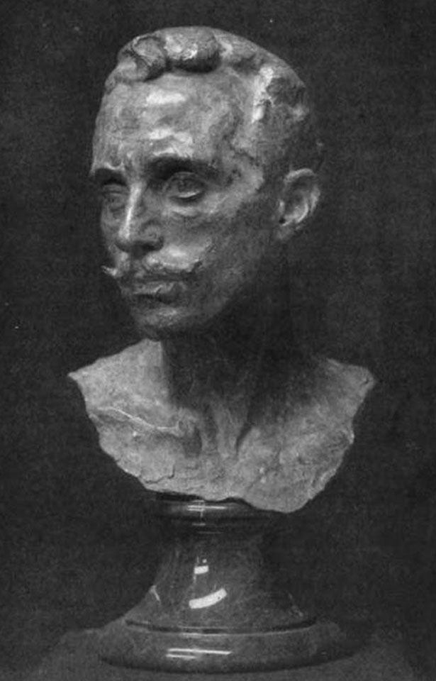 Portrait of an Artist – Bust of Furio Piccirilli, Attilio Piccirilli, sculptor.